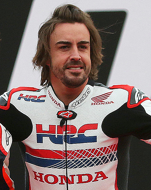 Fernando Alonso.